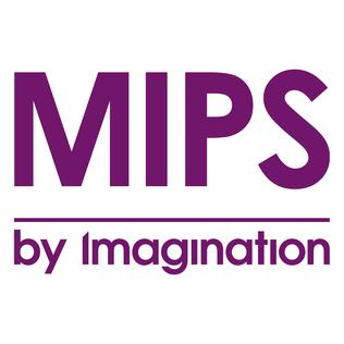 The MIPS brand logo as used by Imagination Technologies since acquiring MIPS Technologies Inc.